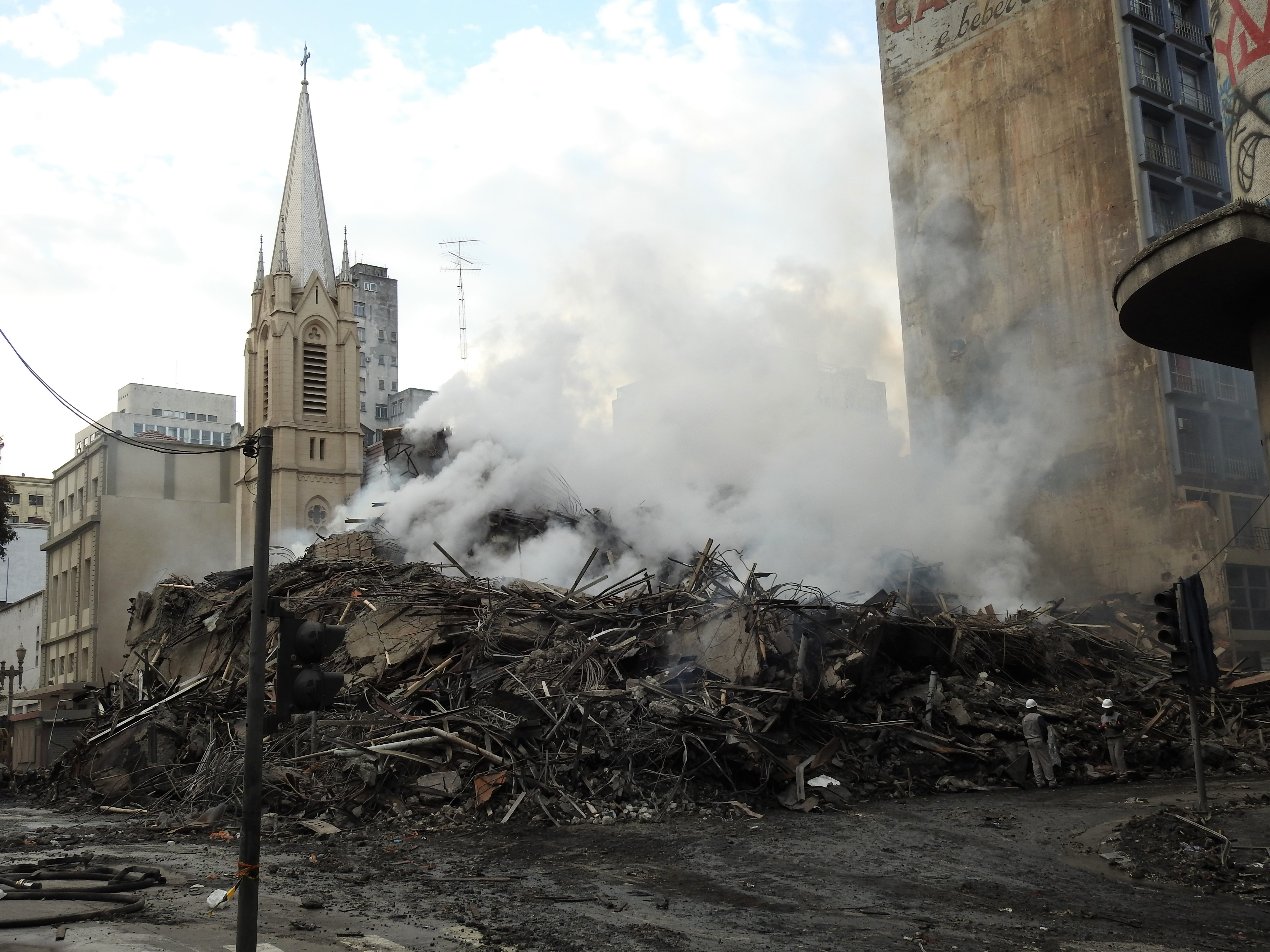 The Wilton Paes de Almeida Building (Portuguese: Edifício Wilton Paes de Almeida) was a high-rise building in Largo do Paiçandu, São Paulo, Brazil, that was built in the 1960s. It caught fire and collapsed on 1 May 2018. The fire started on the fifth floor at 4.20am GMT (1.20am local time) on 1 May 2018, and the building collapsed 90 minutes later. The cause of the fire is thought to be a gas explosion. The fire spread to an adjacent building, which was not in danger of collapsing.